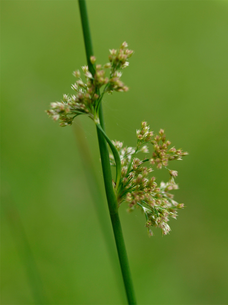 Juncus effuses Loch Kruse 7-8-08